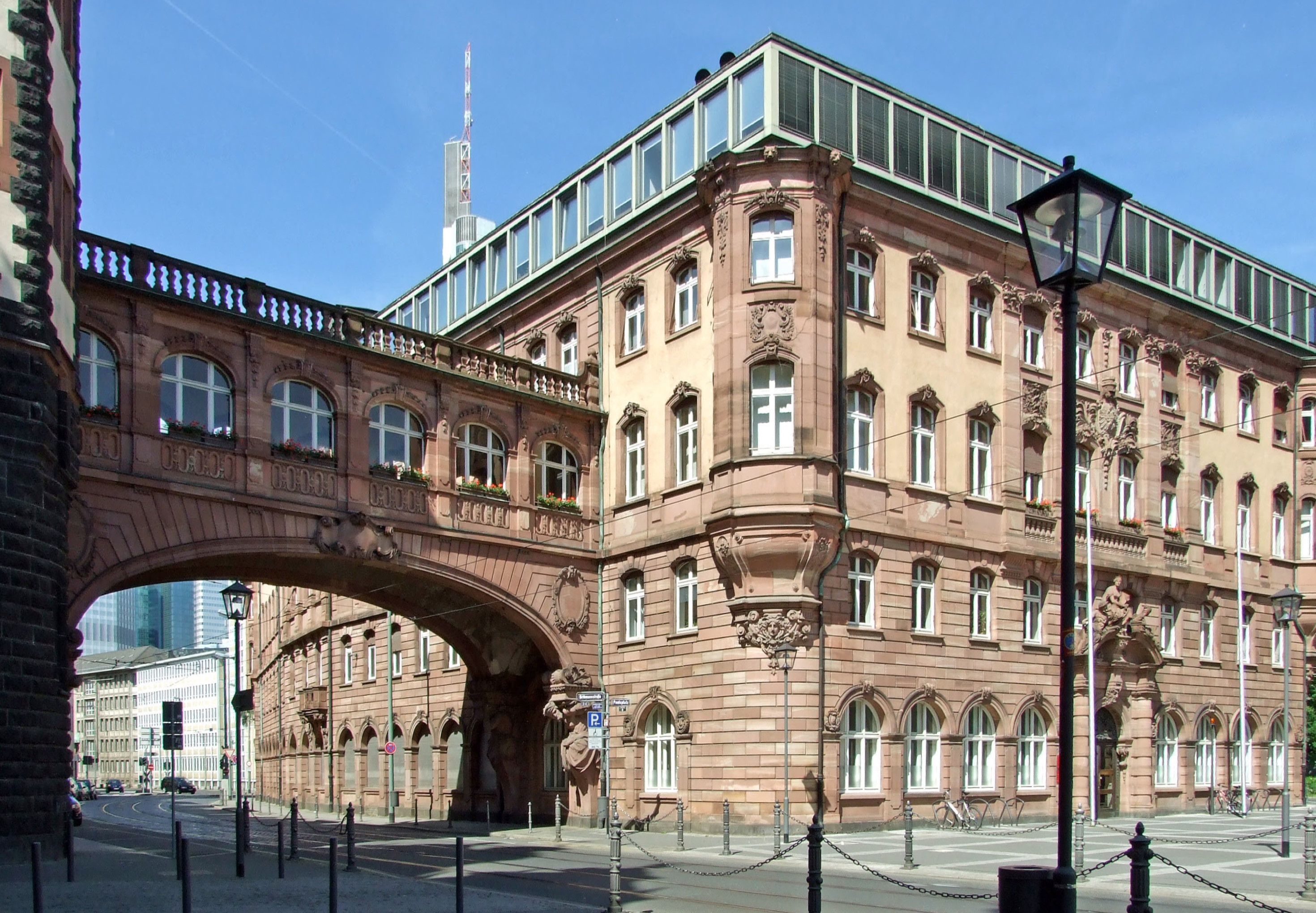 Bridge of Sighs between the north and south parts of the city hall Roemer in Frankfurt am Main, over Bethmannstrasse, view from Paulsplatz